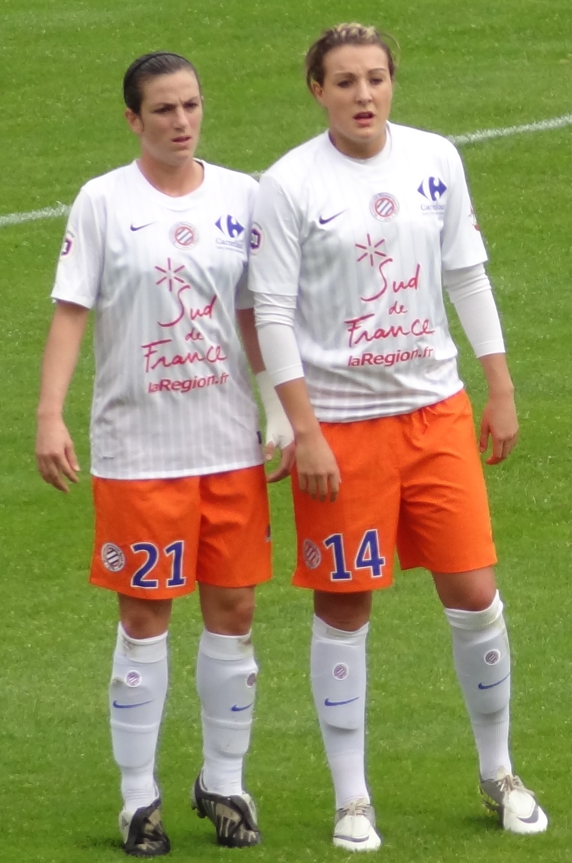 Stéphanie De Revière (21) & Claire Lavogez (14) Montpellier